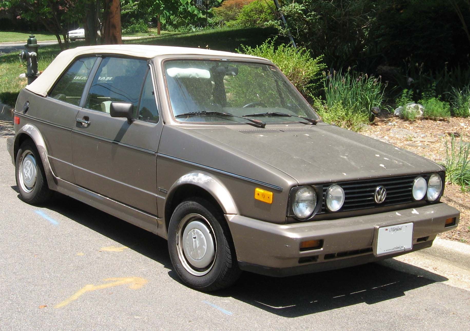 Volkswagen Cabriolet photographed in USA.